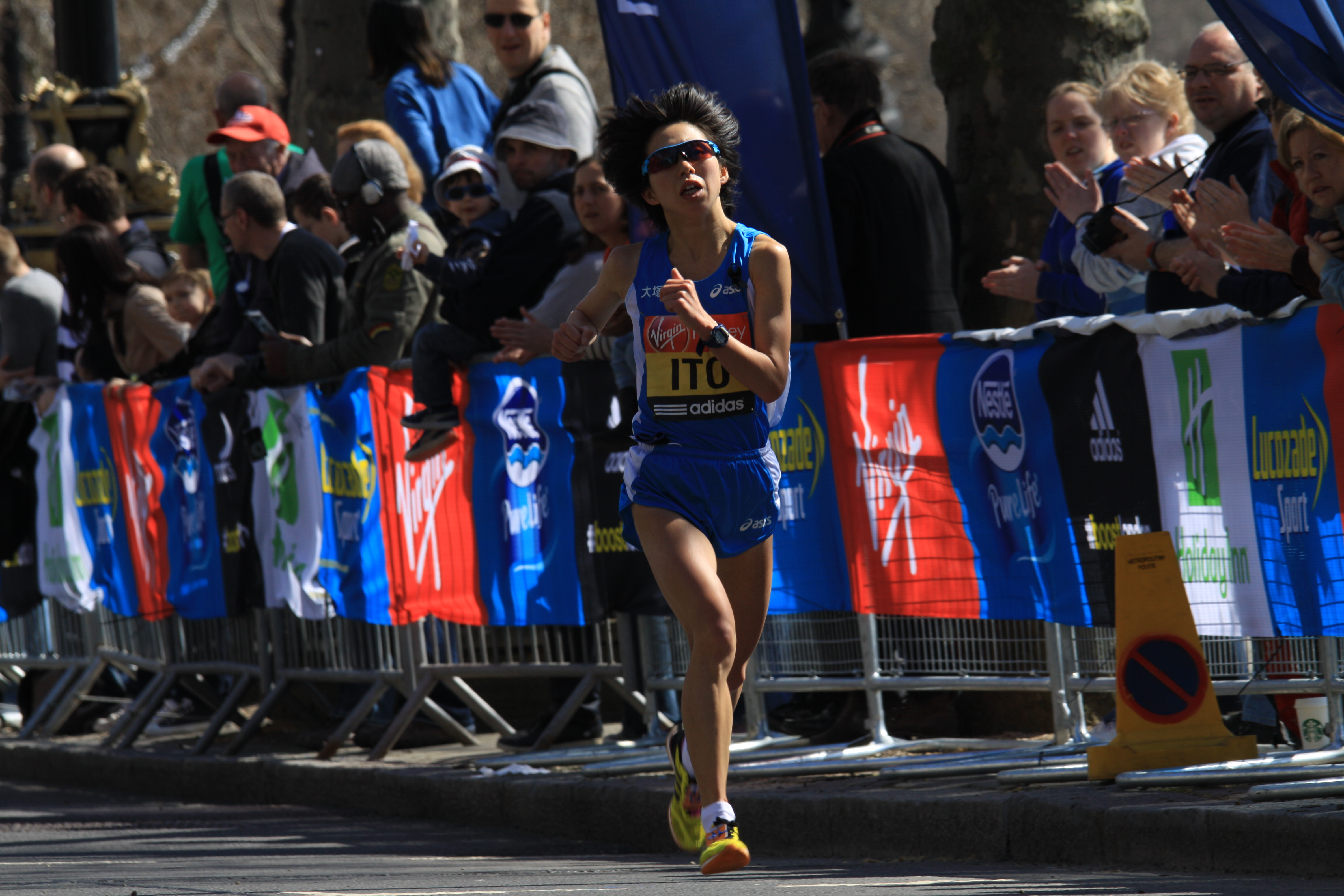 Mai Ito during 2013 London Marathon, photographed at Victoria Embankment, London, Great Britain. The making of this file was supported by Wikimedia UK. - Google Maps - Google Earth